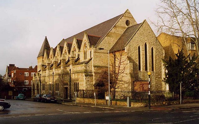 St Silas, Penton Street London N1